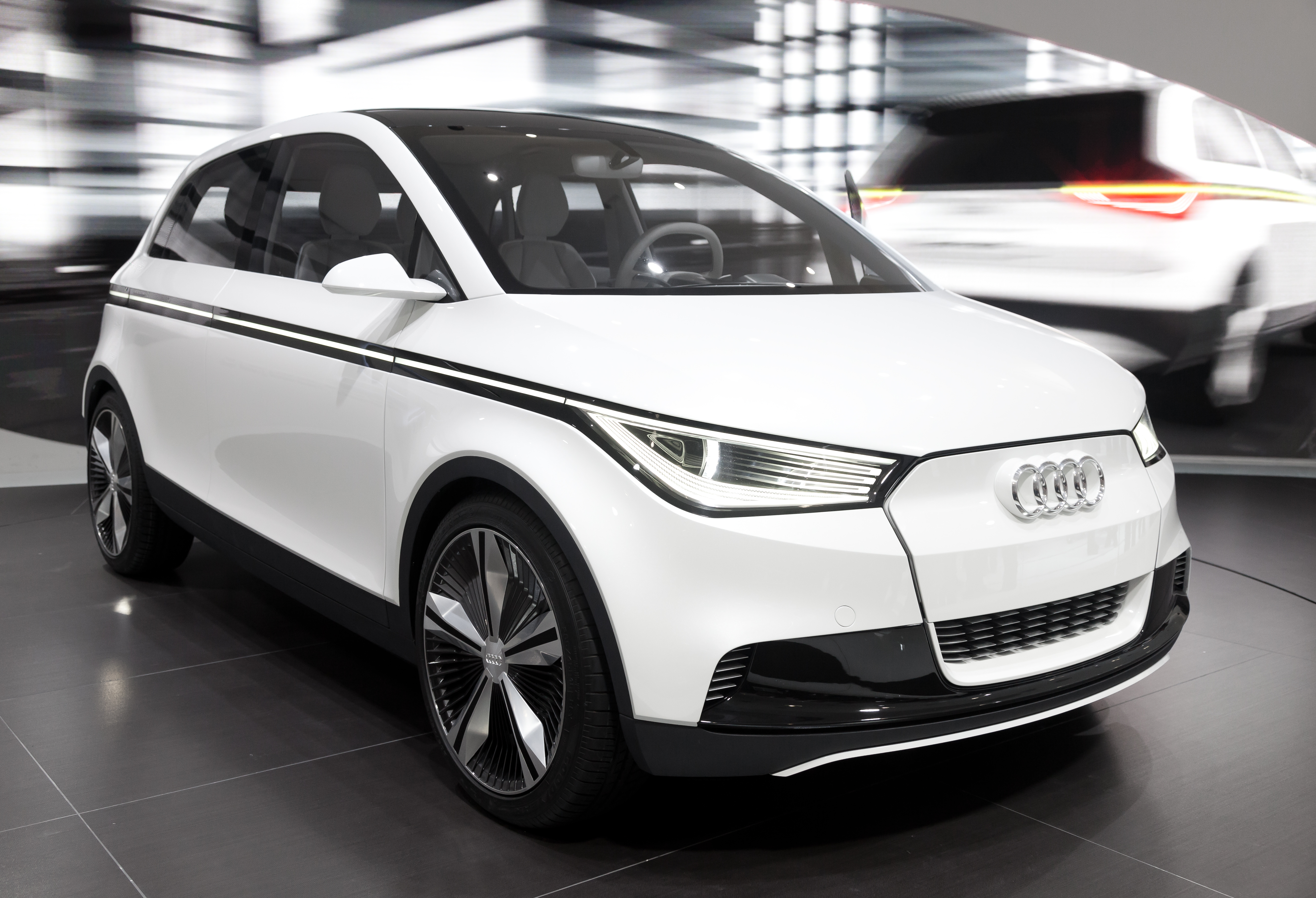 Audi A2 concept at Frankfurt Motor Show 2011 in Frankfurt, Germany